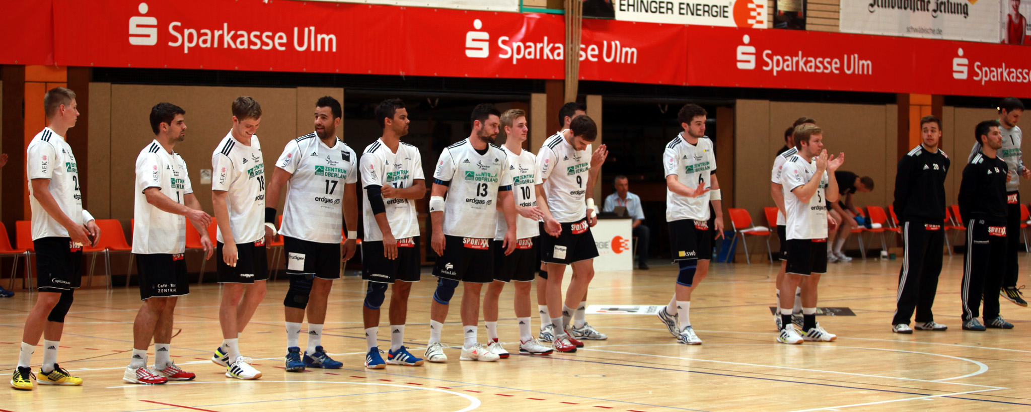 The team of Wacker Thun, on August 17th, 2012 in Ehingen (Germany), during the Sparkassen Cup (formerly known as Schlecker Cup).